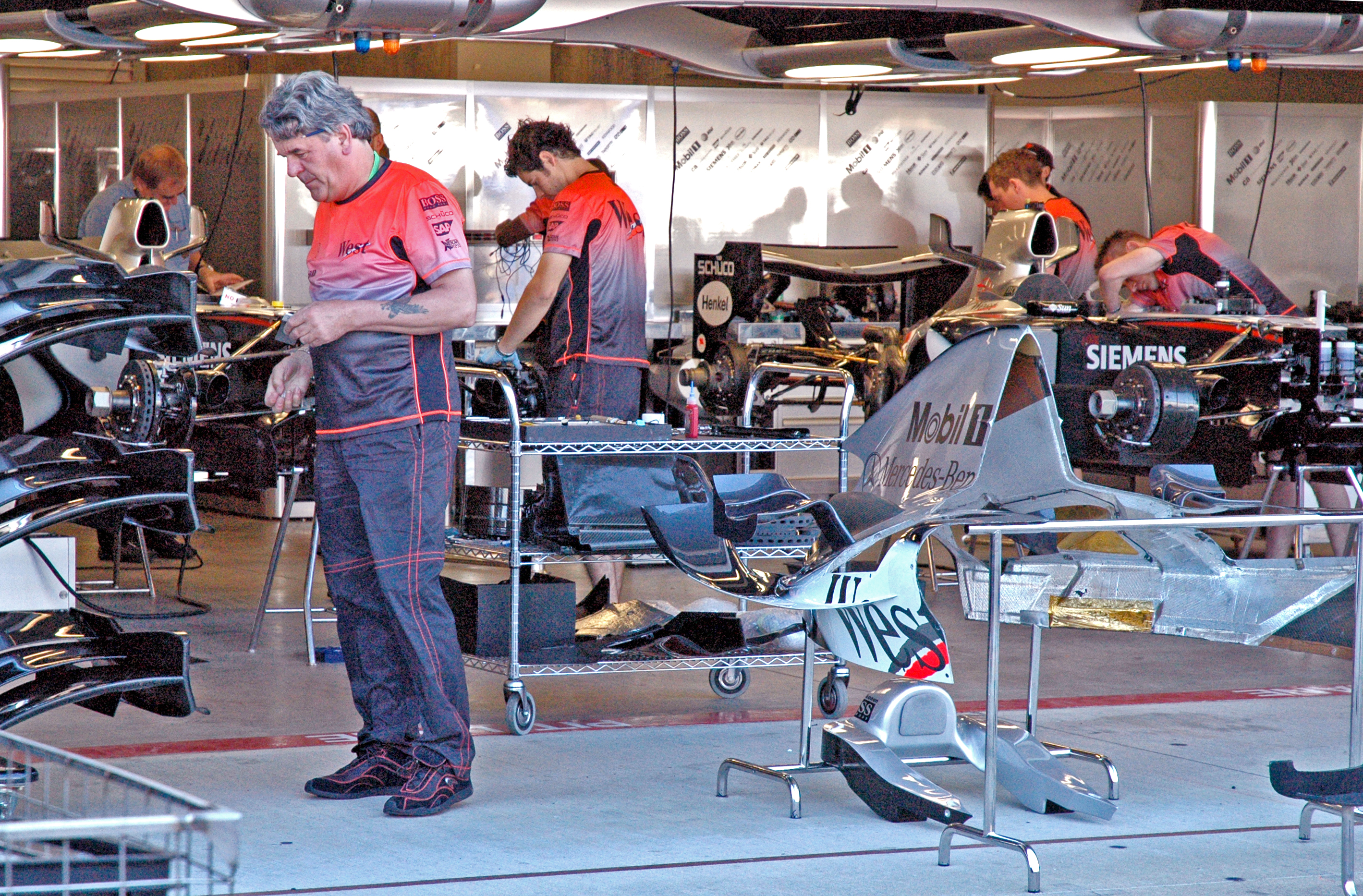 The McLaren garages at the 2005 United States Grand Prix